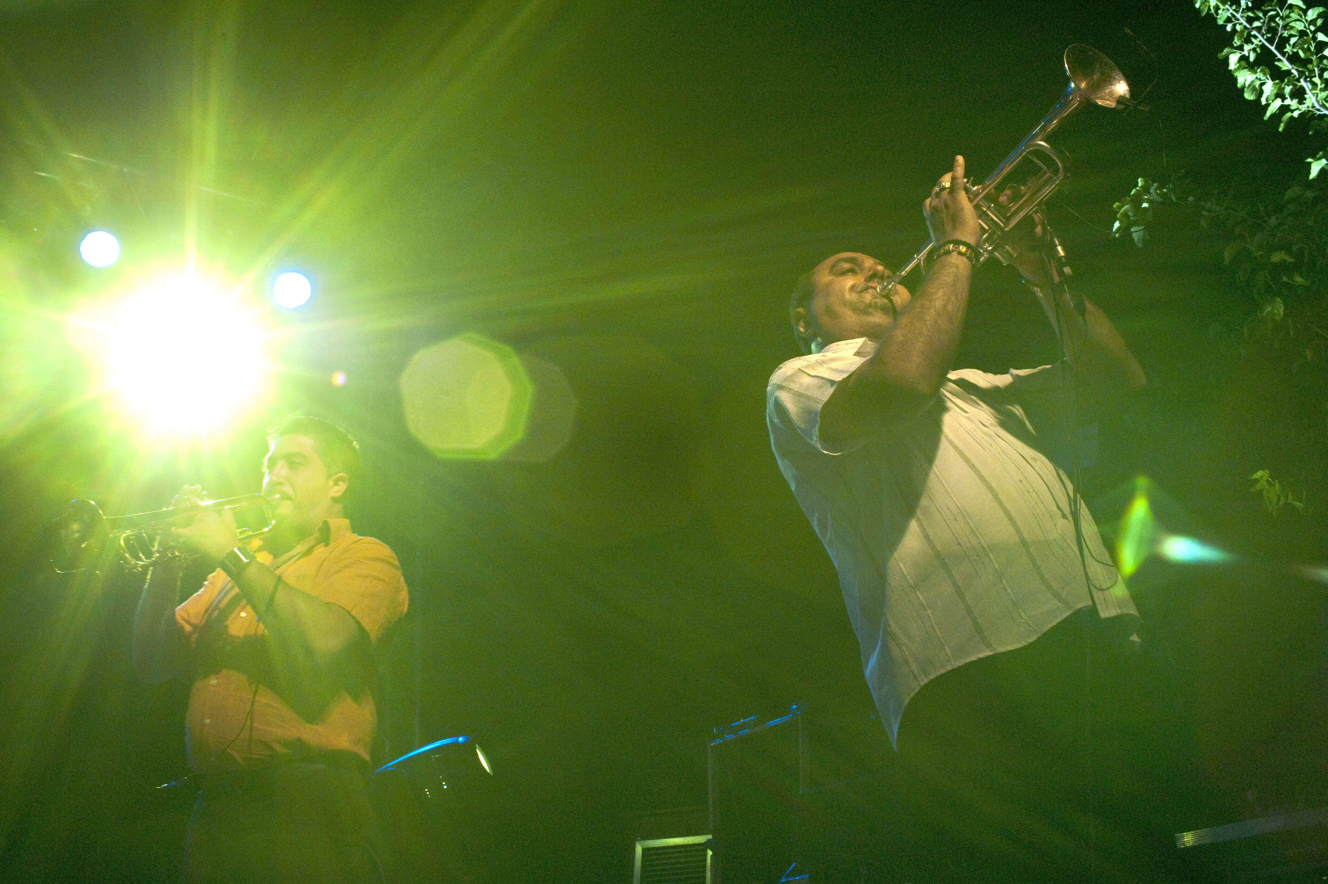 Romanian music group "Fanfare Ciocarlia" live @ Athens, Resistance festival by KOE.